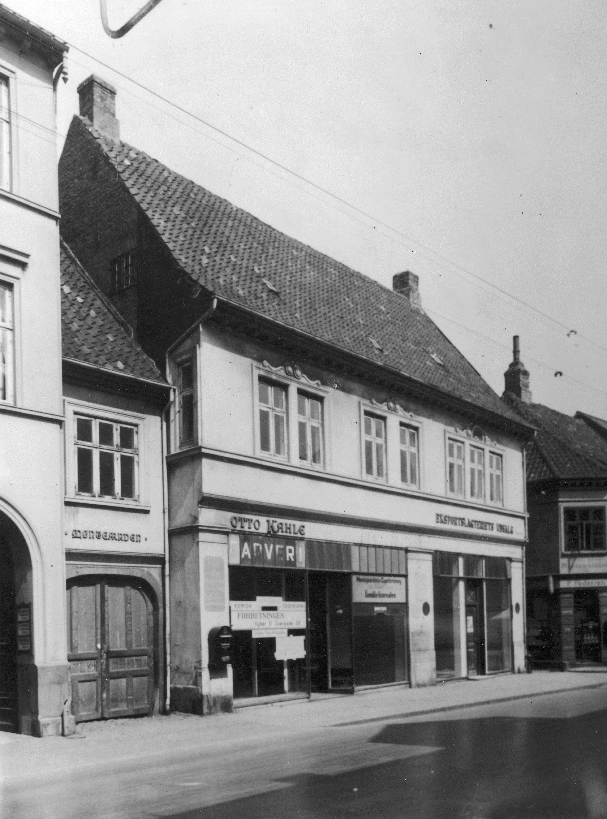 The museum of Møntergården in Odense, Denmark, before the restauration which took the building back to its original renaissance exterior.